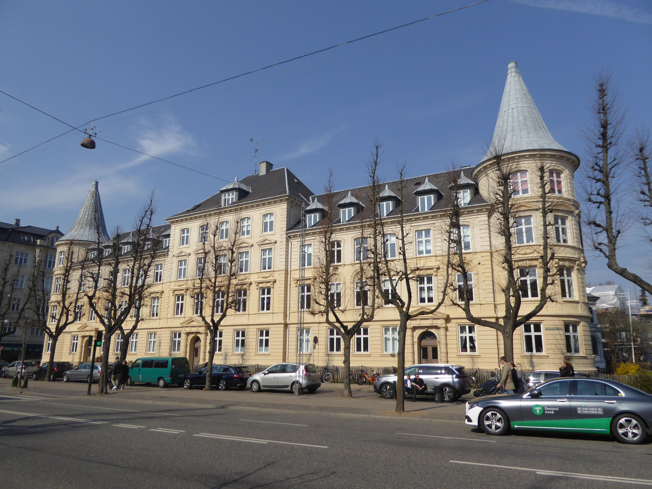 Apartment building at Frederiksberg Allé in Frederiksberg in Copenhagen.